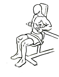 an exercise of triceps